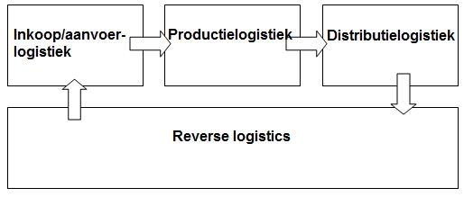 terminology supply chain in Dutch